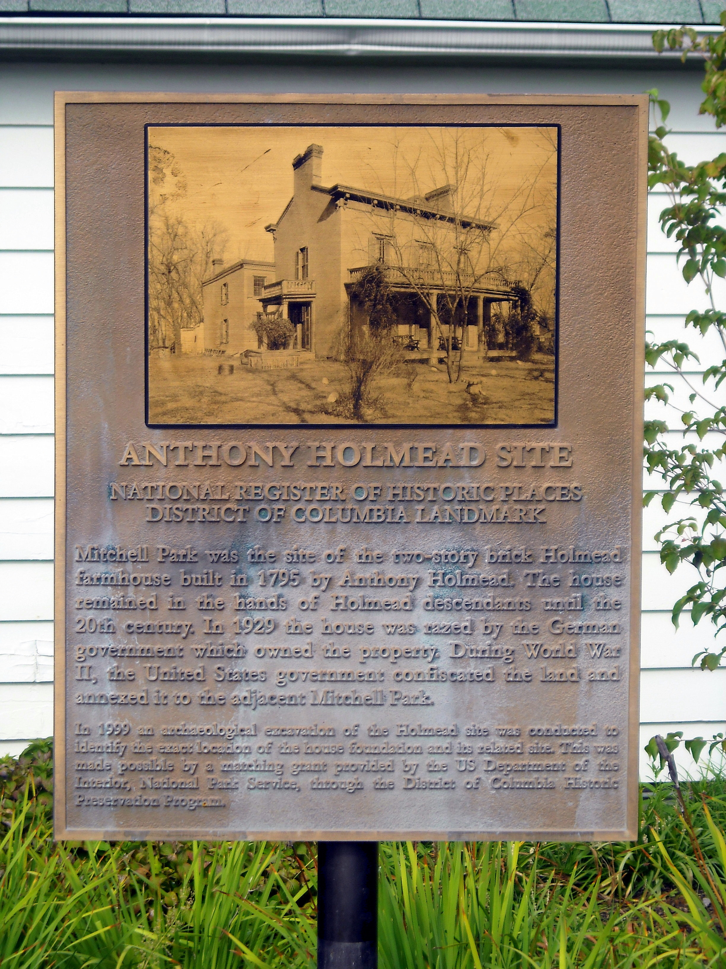 The Anthony Holmead Archeological Site at Mitchell Park, a small recreational area located at 1801 23rd Street, NW in the Sheridan-Kalorama neighborhood, Washington, D.C. The site was added to the National Register of Historic Places in Washington, D.C. on April 27, 1995 and is a contributing property to the Sheridan-Kalorama Historic District. The 2009 property value of the site (park included) is $6,956,490.